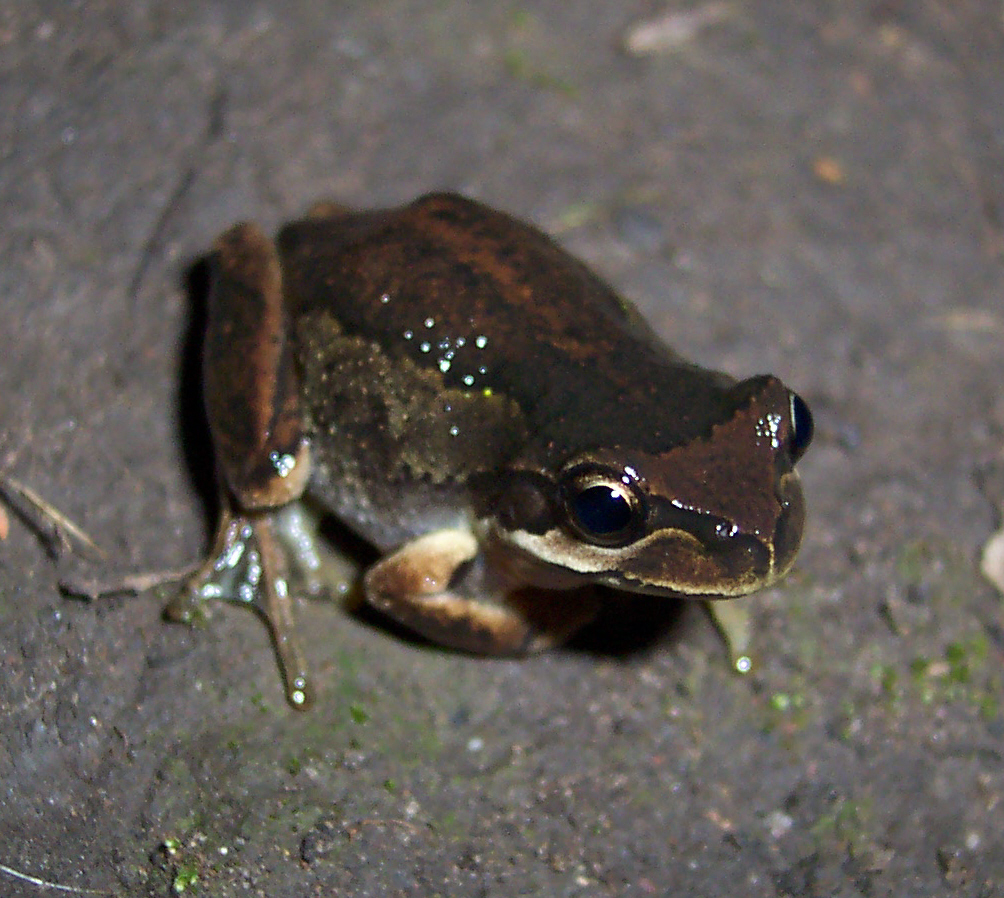 A Brown Tree Frog, (Litoria ewingii) from Hobart, Tasmania.